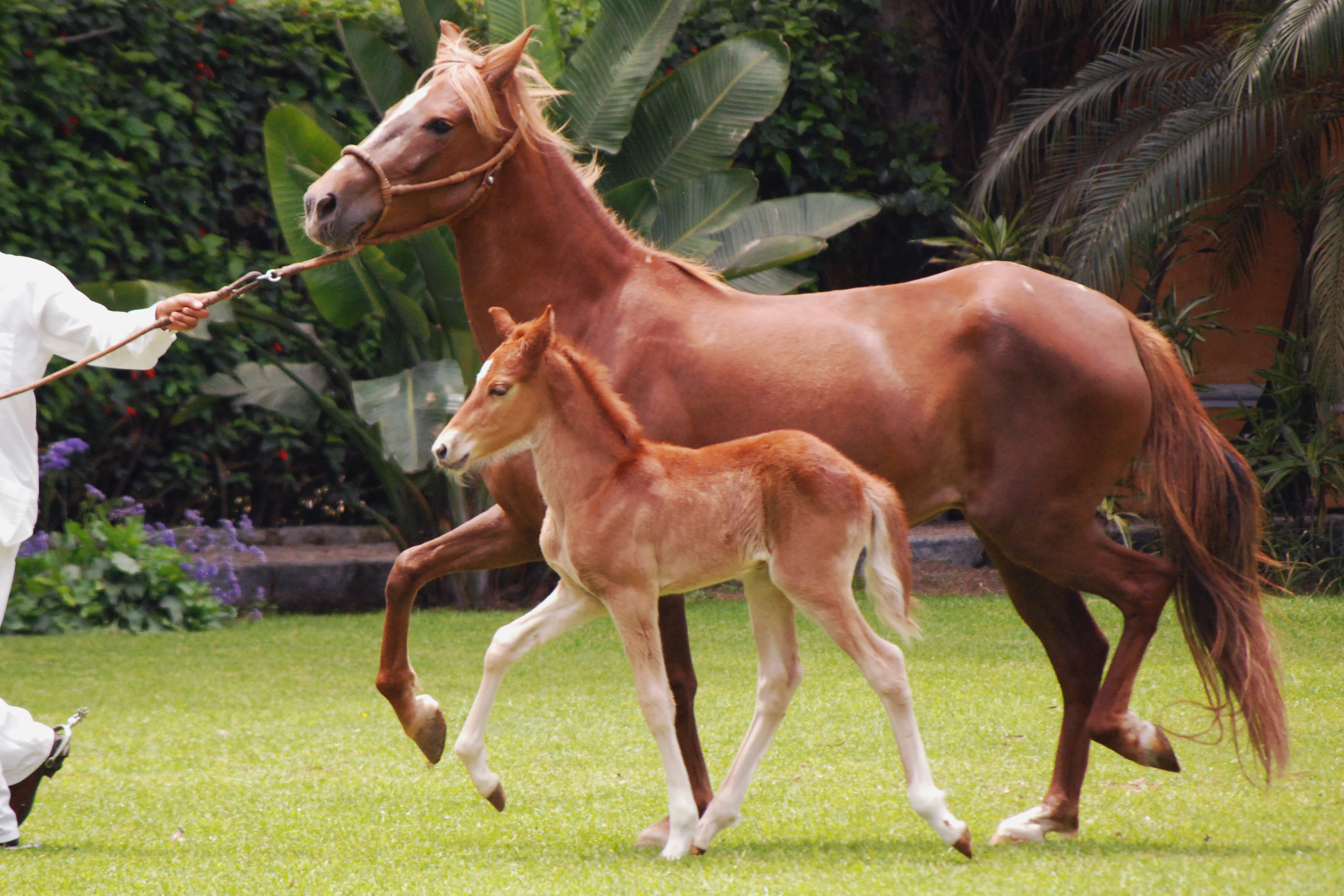 Peruvian Paso with foal at the Hacienda Mamacona